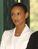 The brazilian actress Taís Araújo in Brasília, 2004.